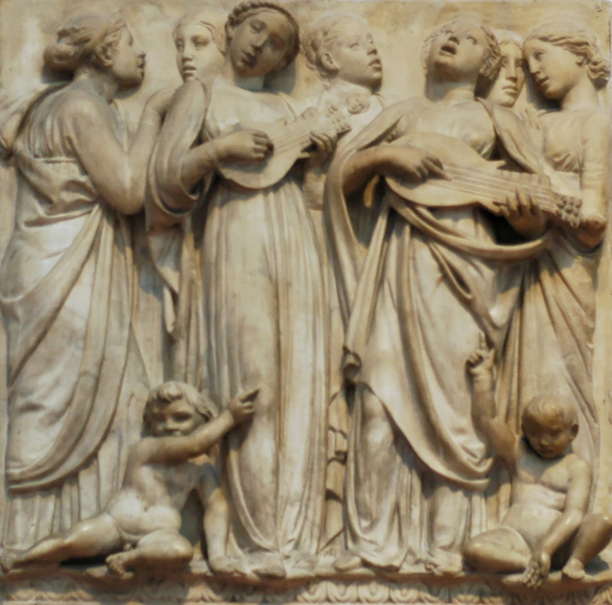 Young girls playing music, illustration of Psalm 150 (Laudate Dominum). Panel decorating the cantoria (singers' gallery), actually a balcony for the 1438' organ of the Duomo. Museo dell'Opera del Duomo, Florence, Italy. Marble.